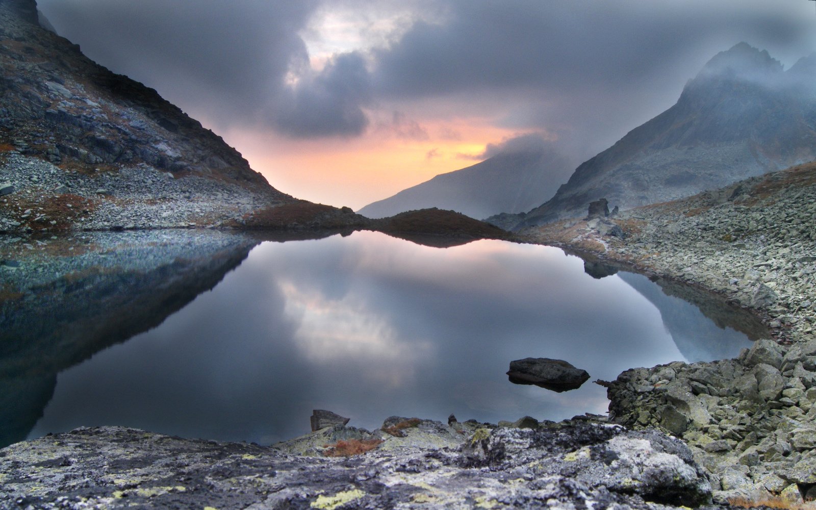 Ľadové pleso in Vysoké Tatry mountain range. hdr image.